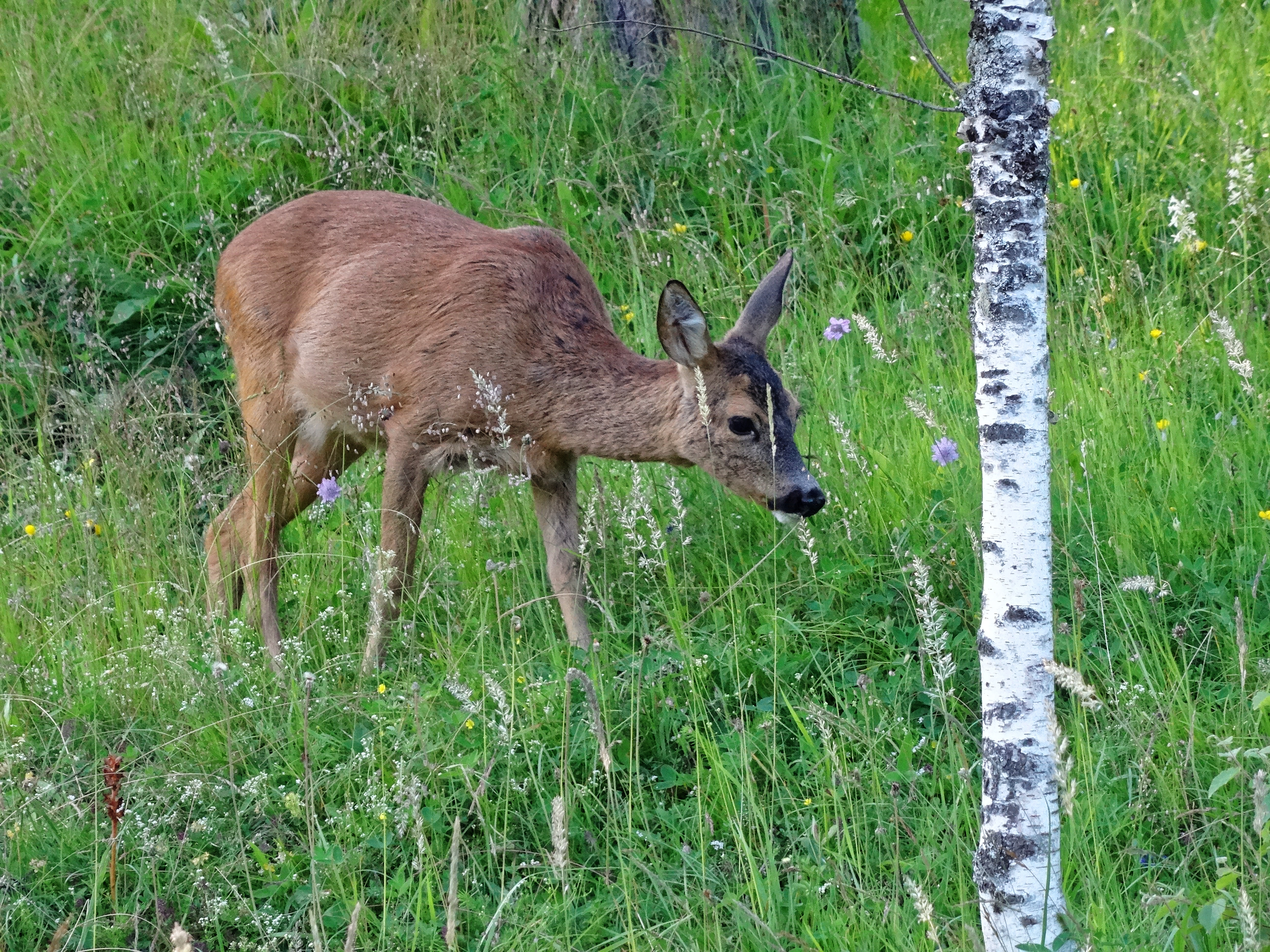 Roe Deer